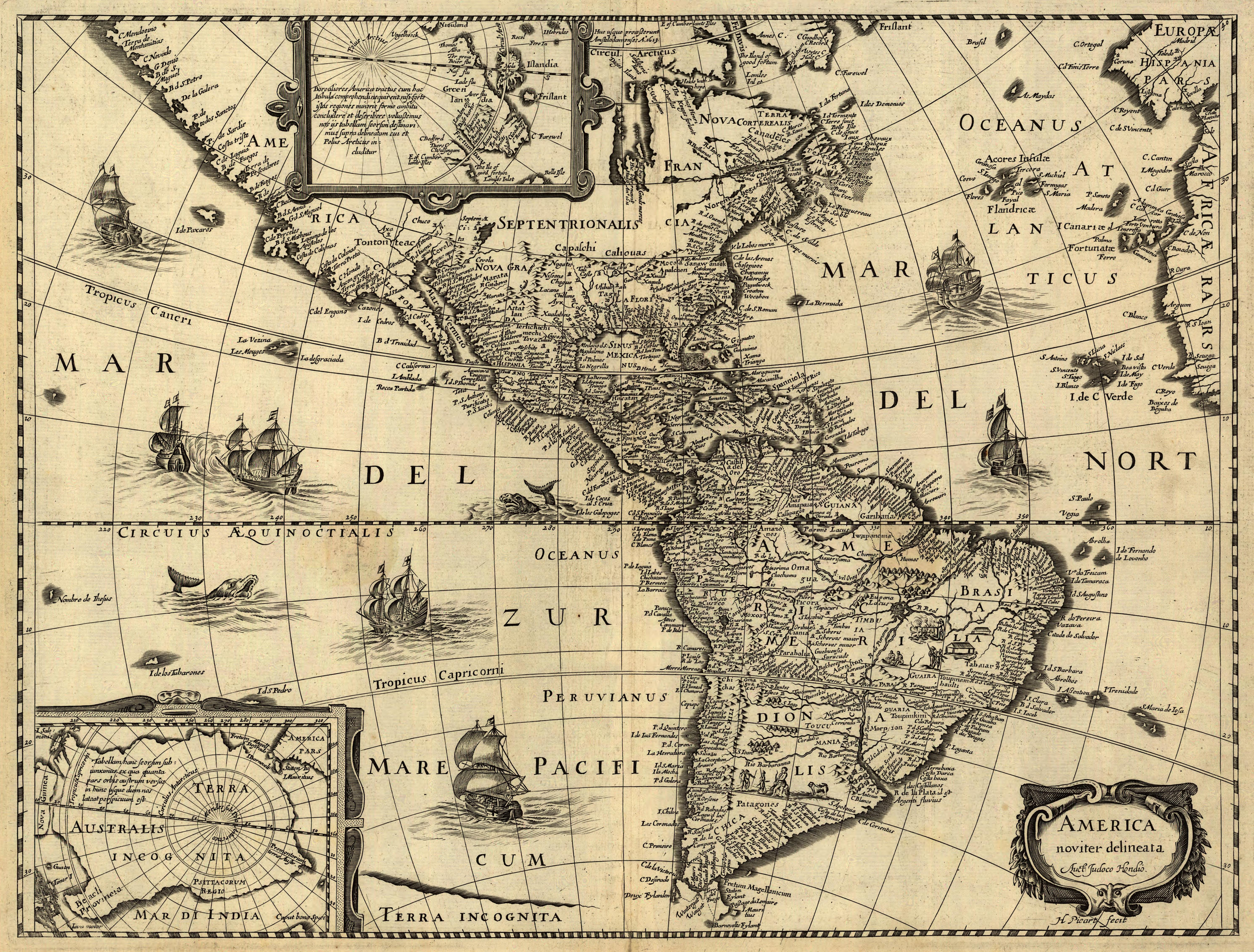 America newly delineated / by Jodocus Hondius; engraved by H. Picard. A 17th-century map of the Americas. Scale ca. 1:45,000,000. Map ranges from W 125°–W 5° and N 70°–S 60°. Also includes insets of the polar regions.